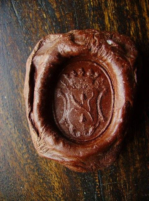 The Official Coat of Arms of the Van Hemminga Family from Beetsterzwaag - Friesland - Netherlands